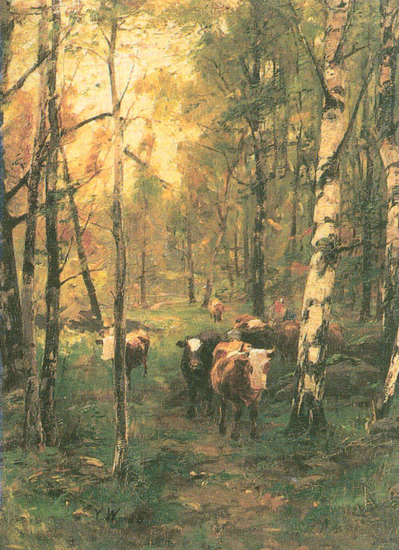 Cows in a birchwood.